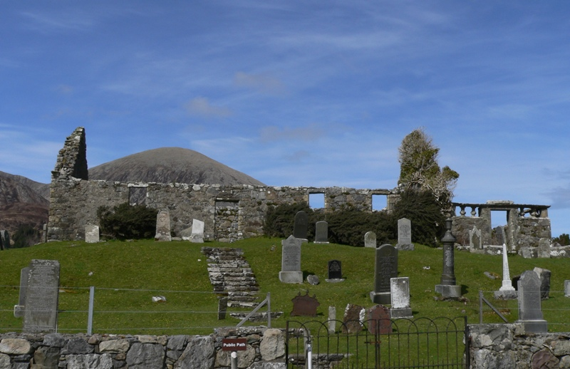 Cill Chriosd, Strath, Skye, Scotland